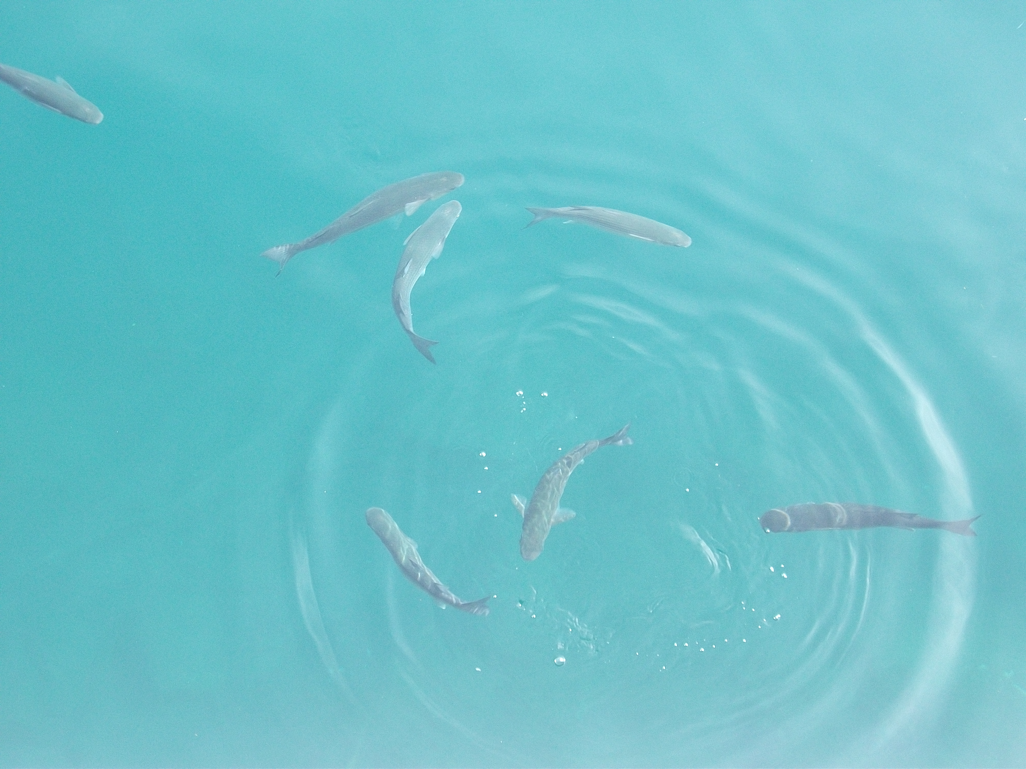 Liza aurata